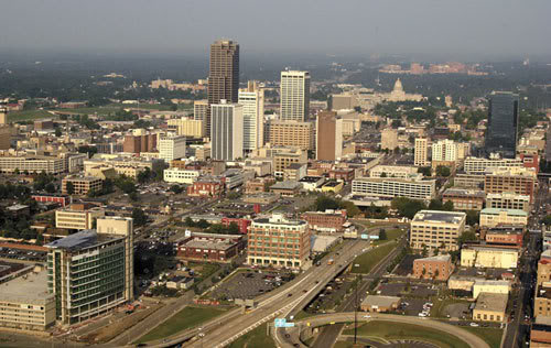 Little Rock skyline.